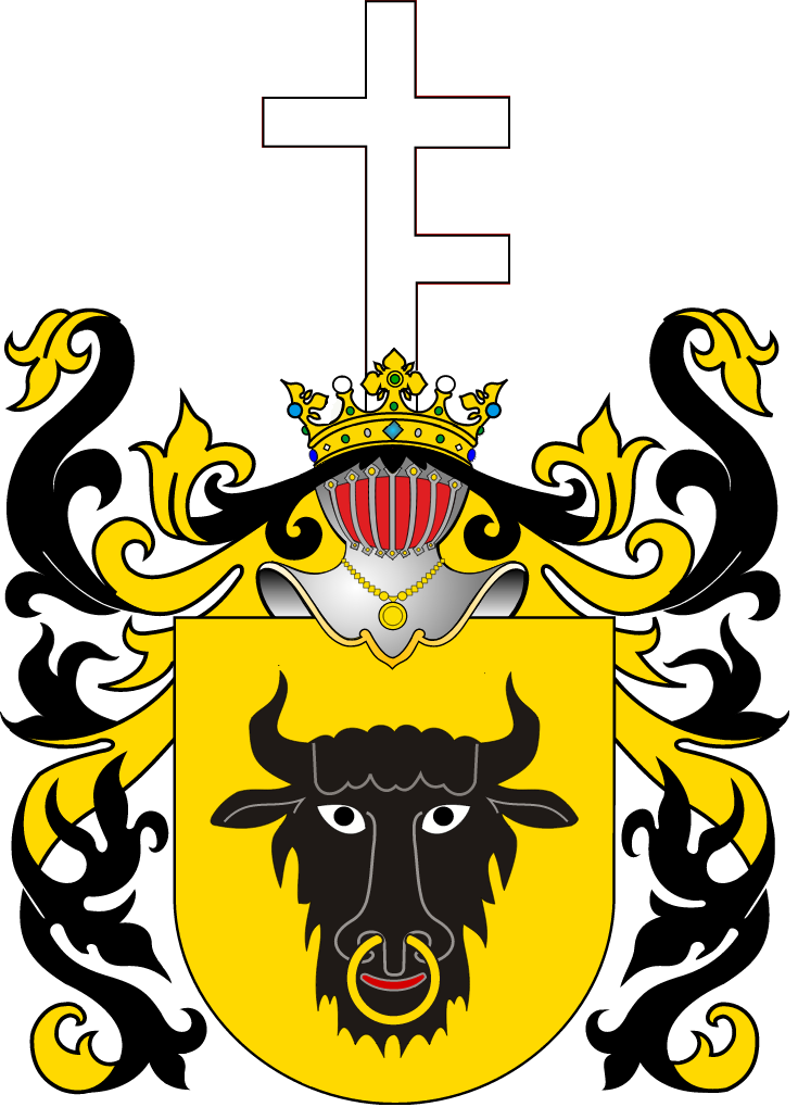 Polish noble family coat of arms Szczepanowski